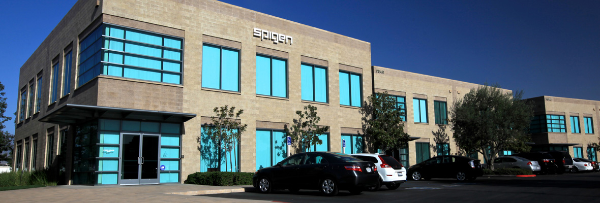 spigen irvine